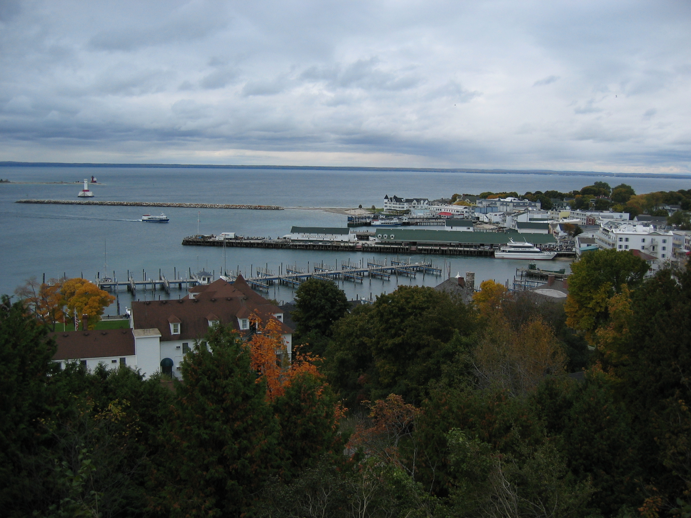 Port of Mackinac Island, Michigan, United States.